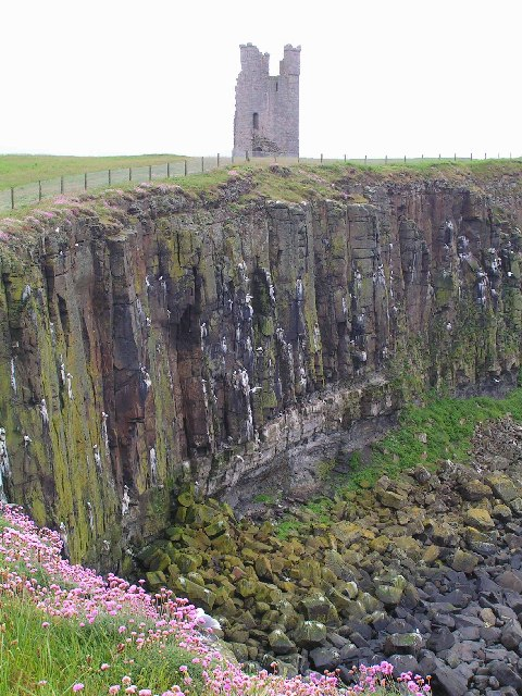 Dunstanburgh Castle & Whin Sill.